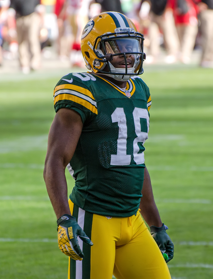 San Francisco 49ers vs. Green Bay Packers at Lambeau Field on September 9, 2012. Photo by Mike Morbeck.